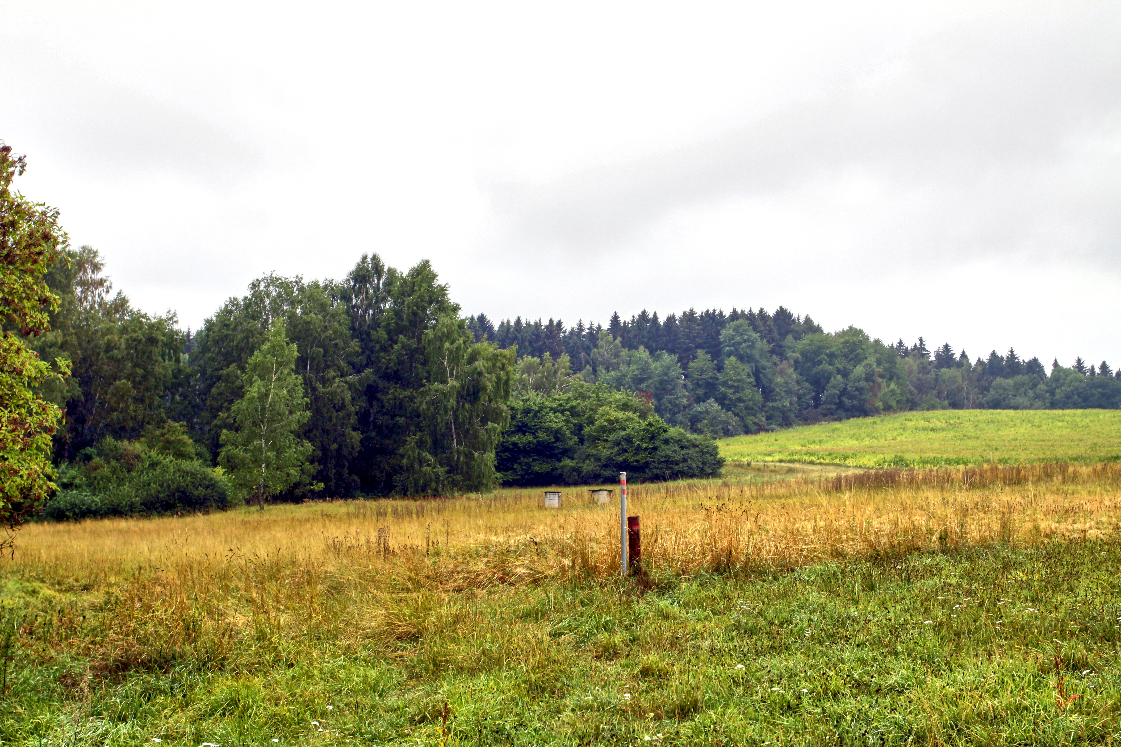 Natural monument Hvožďanská louka near Hvožďany village in Domažlice District, Czech Republic